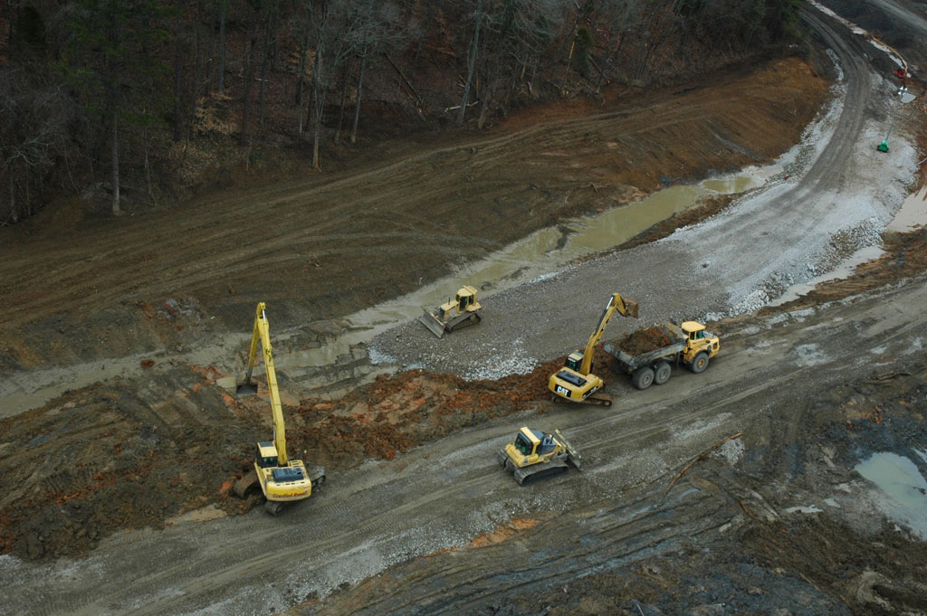 Crews prepare the railroad bed for new ties and rails.